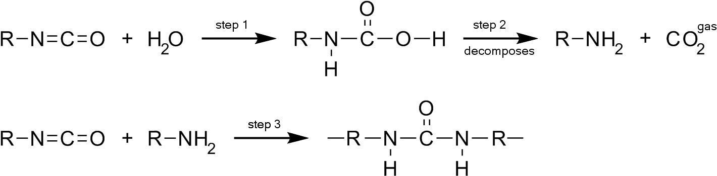 Chemical reaction of water and isocyanate